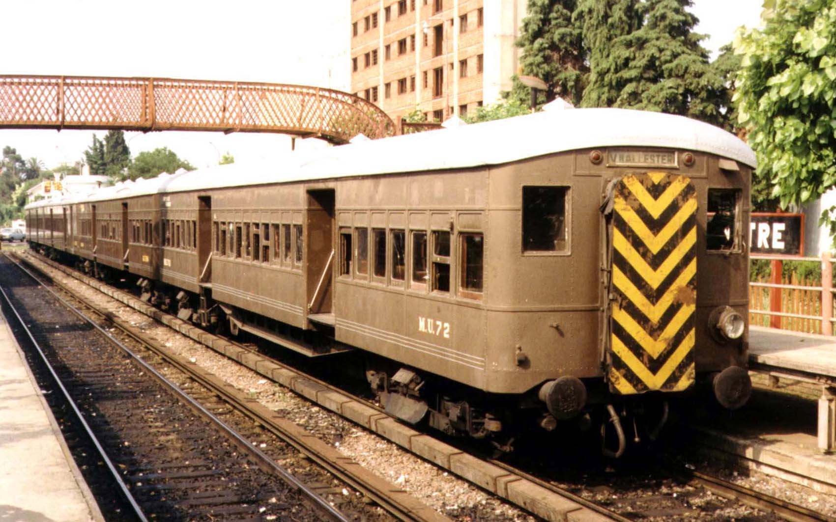 An electric multiple unit by Metropolitan Vickers stopped at Bartolomé Mitre station of FA's homonymous division.